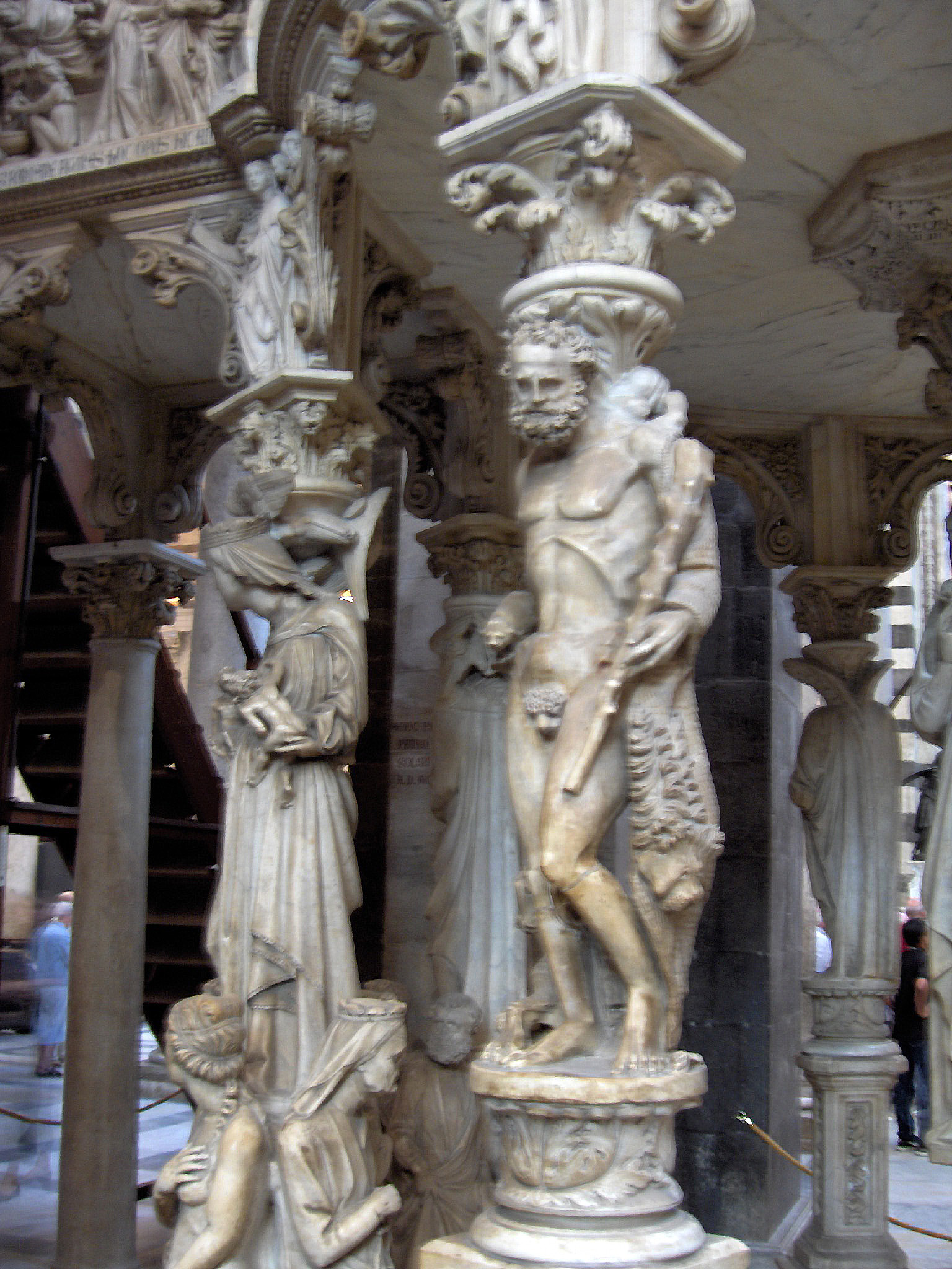 Detail (naked Hercules) of the pulpit by Giovanni Pisano in the cathedral; Pisa, Italy. Own photo